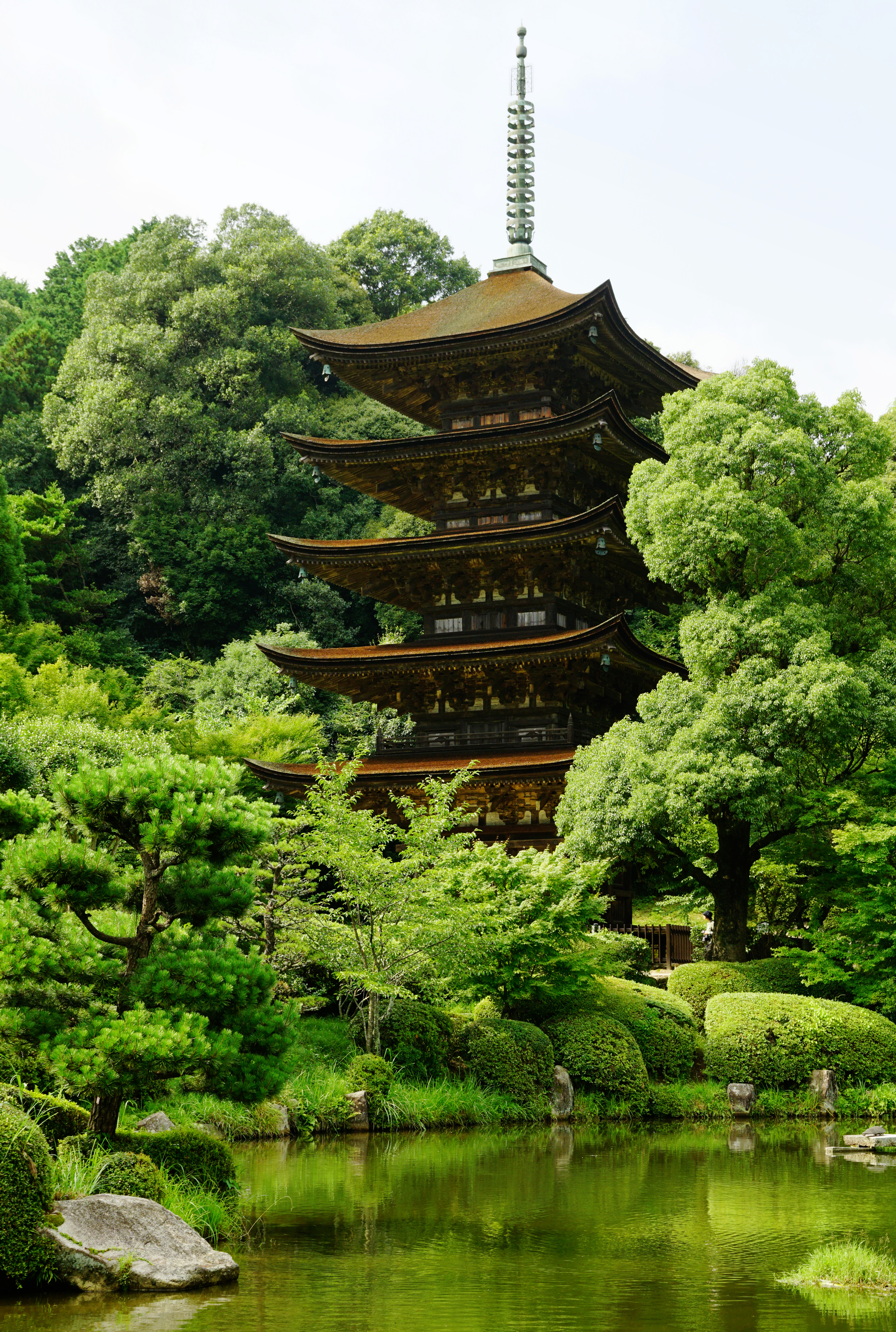 Rurikō-ji in Yamaguchi, Yamaguchi prefecture, Japan.